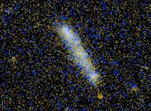 GALEX (ultraviolet) image of NGC 7.